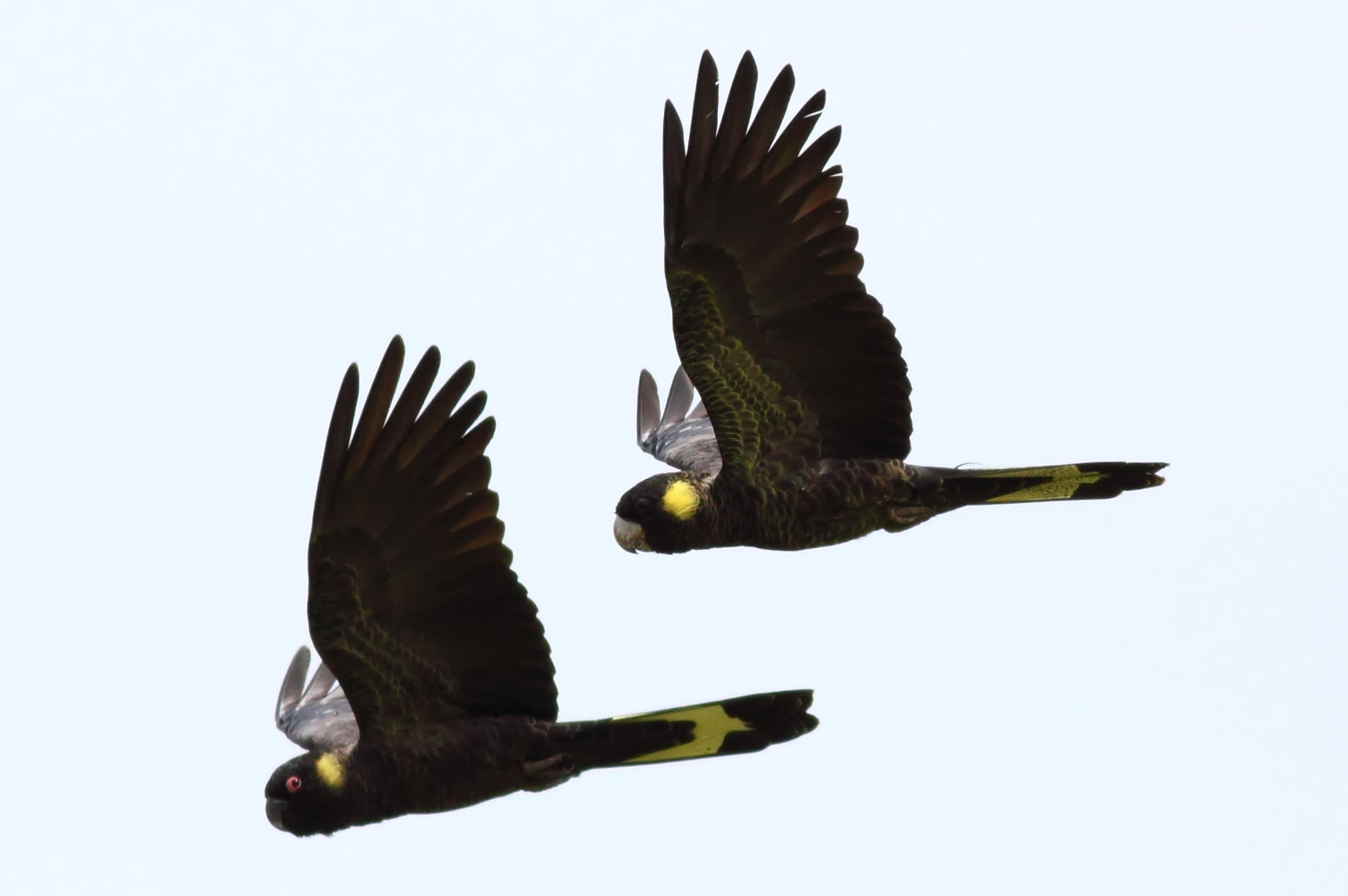 A pair of Yellow-tailed Black Cockatoos flying at Edithvale Wetlands, Melbourne, Victoria, Australia. The male (with pinkish-red eye rings and a black beak) is flying slightly in front of the female (with black eye rings and a greyish beak).